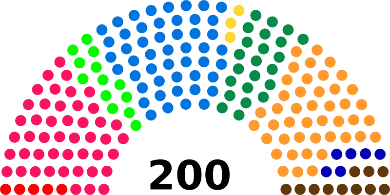 Seats diagramme of Swiss National Council (1971)